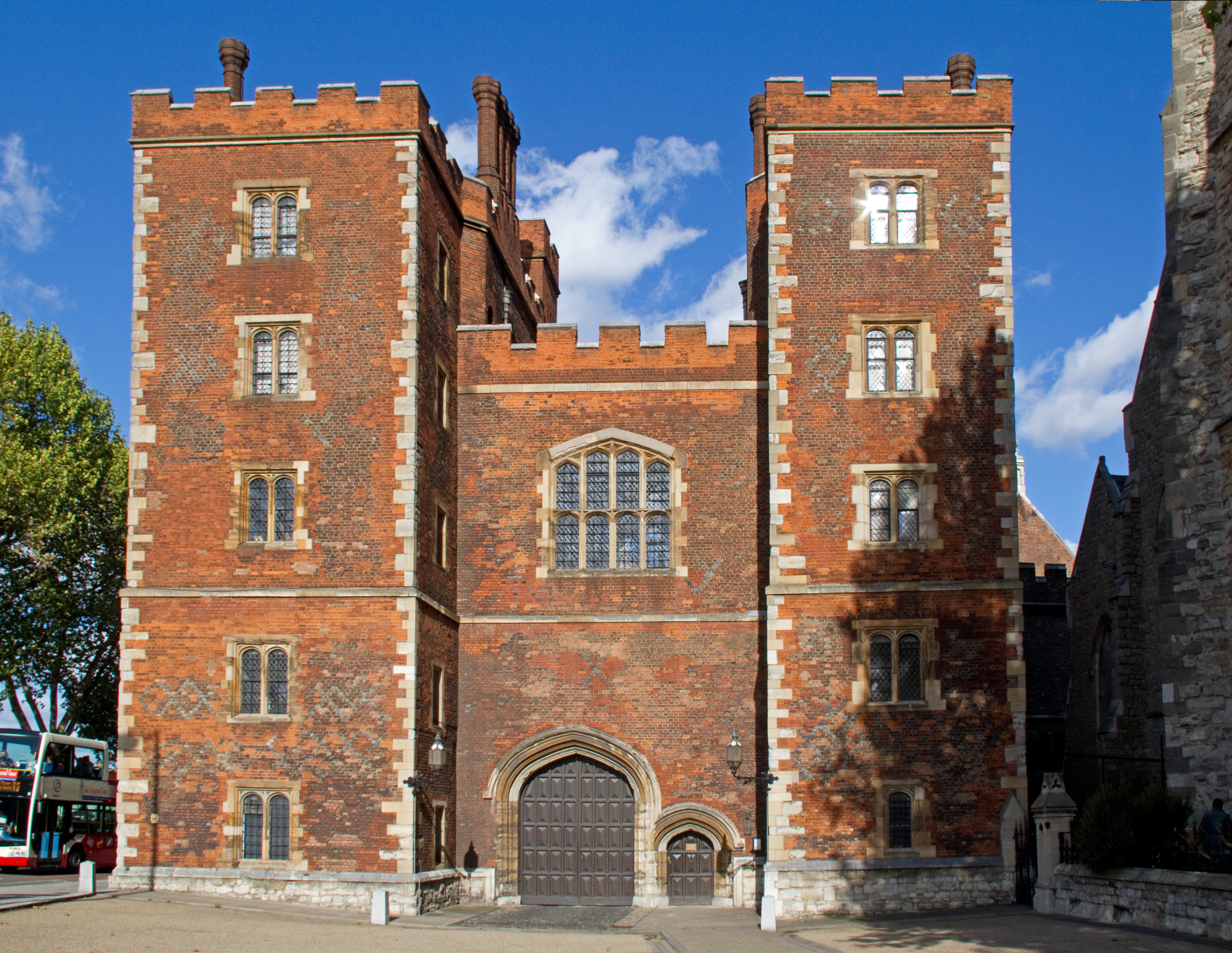 Lambeth Palace Entrance